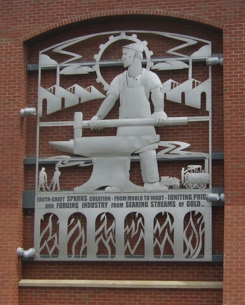 Wednesbury industry Iron and steel working was the predominant industry throughout the 19th century and 20th centuries with the last major employer the 'Patent Shaft' closing in 1980. This artwork is on the new Morrisons store.